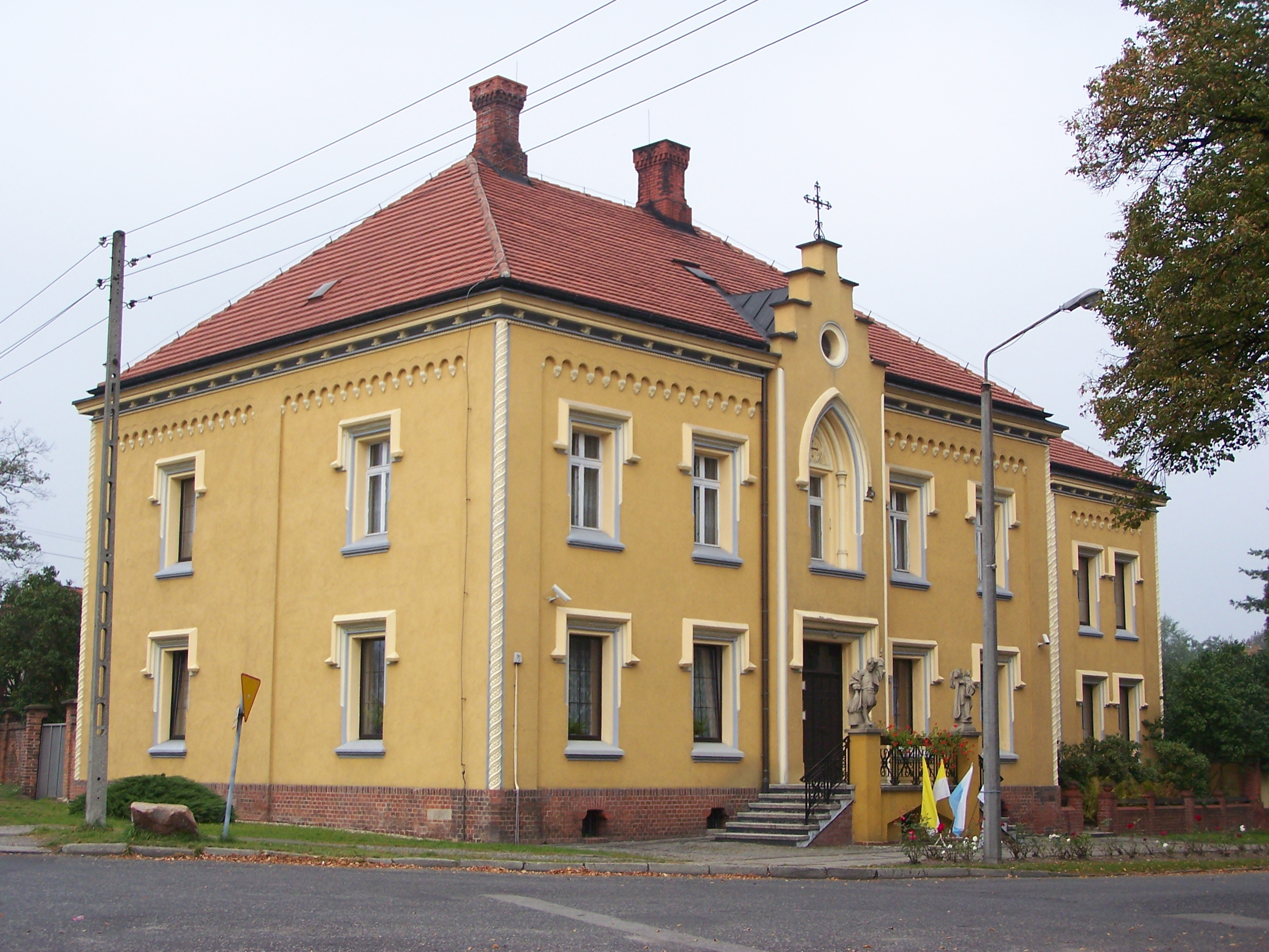 Presbytery in Rudy Raciborskie (Poland).